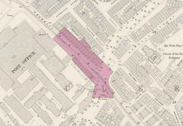 Location of the Metropolitan Railway's planned Clerkenwell station on Farringdon Road, Clerkenwell overlaid on an Ordnance Survey Map. Overlay shading shows extent of area for land purchase or compulsory purchase needed for the station as described in notice of bill published in London Gazette, 22 November 1910 pages 8536-7.